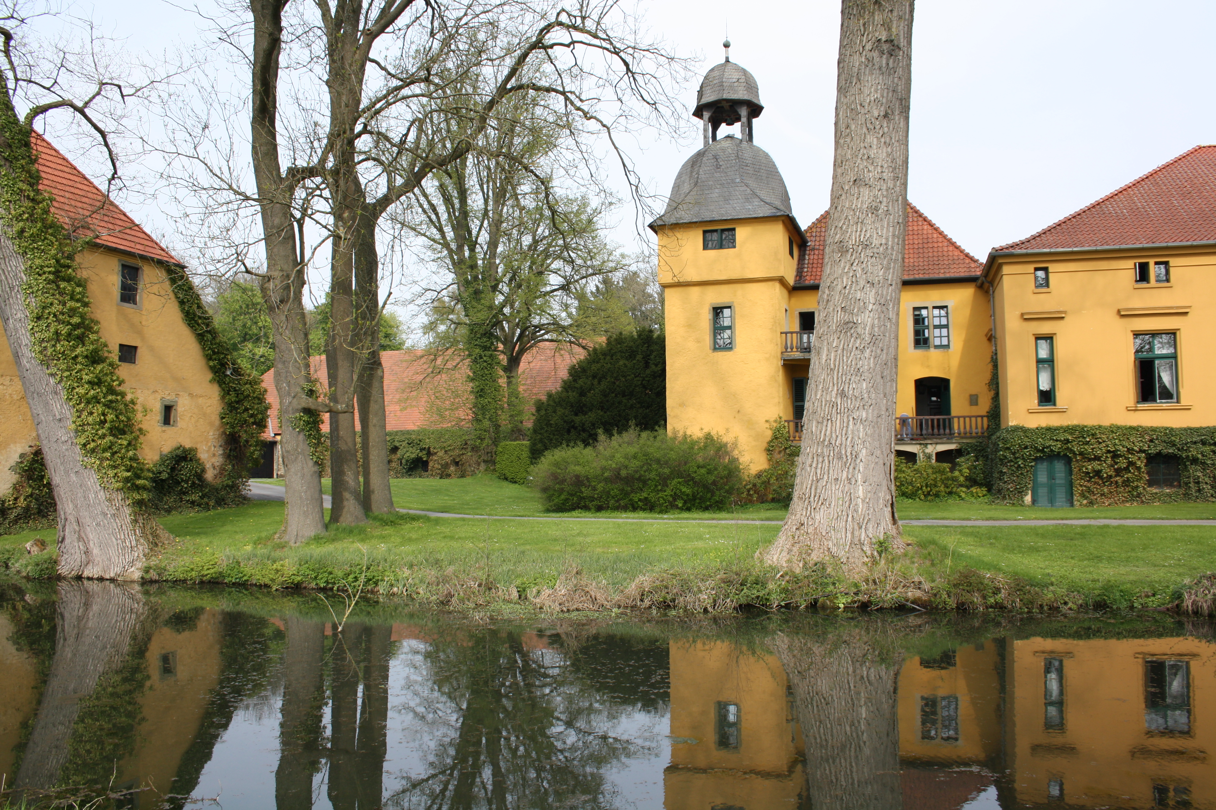 Böckel Castle in Rödinghausen, District of Herford, North Rhine-Westphalia, Germany.